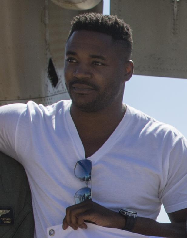 Oct 4, 2017 MCAS Miramar, Calif - Duane Henry, cast member of the CBS hit drama “NCIS: Naval Criminal Investigations” during a USO tour at Marine Corps Air Station Miramar, Calif., Sept. 30. (U.S. Marine Corps photo by Sgt. Lillian Stephens/Released)